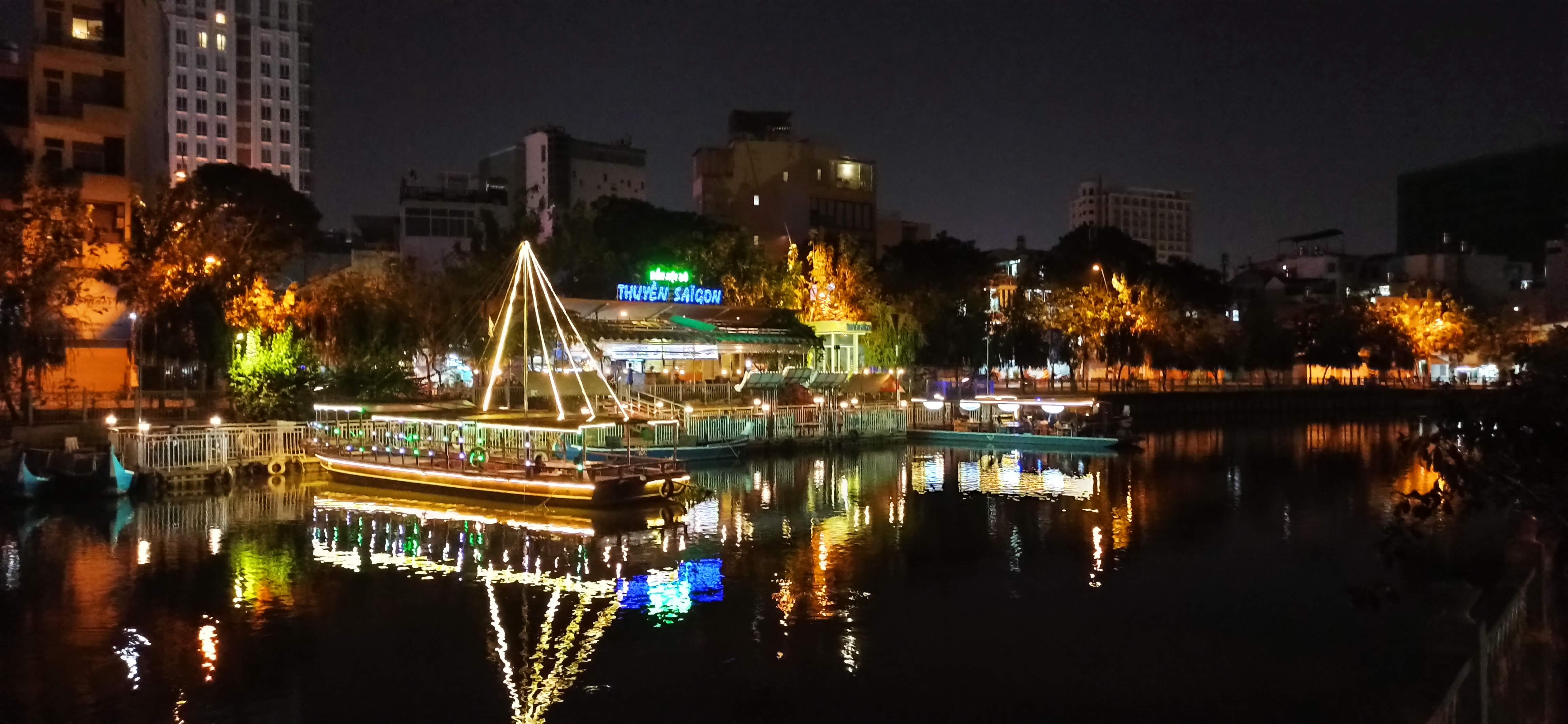 A dock on Nhieu Loc Canal, District 3, HCMC